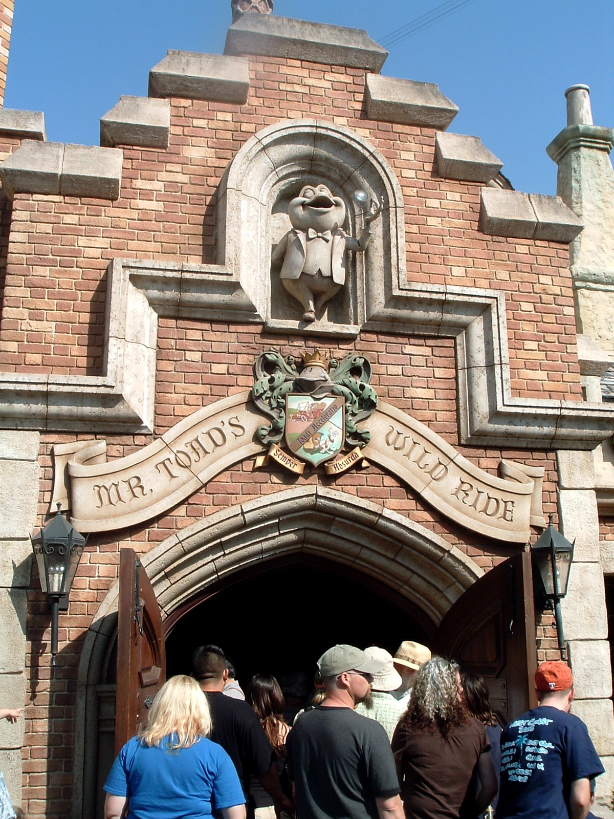 Exterior of Mr. Toad's Wild Ride at Disneyland